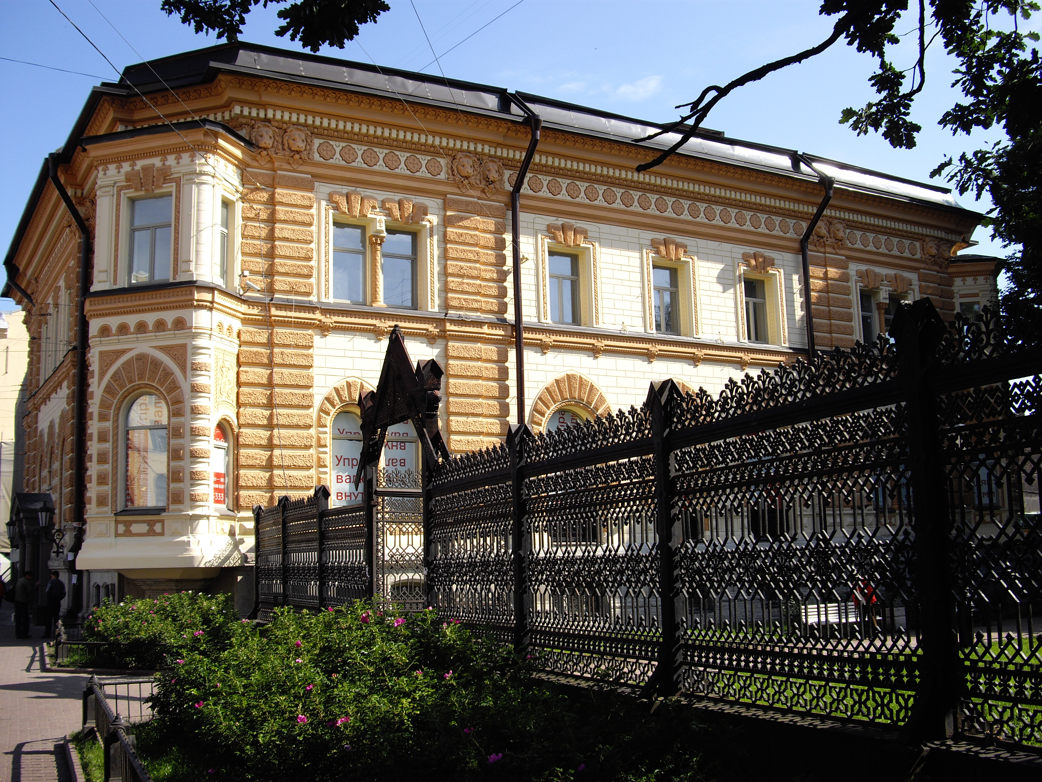 Ligovsky Prospekt, 62. Metal fence and entrance to the Sangalsky Garden and the mansion of Franz San Galli.